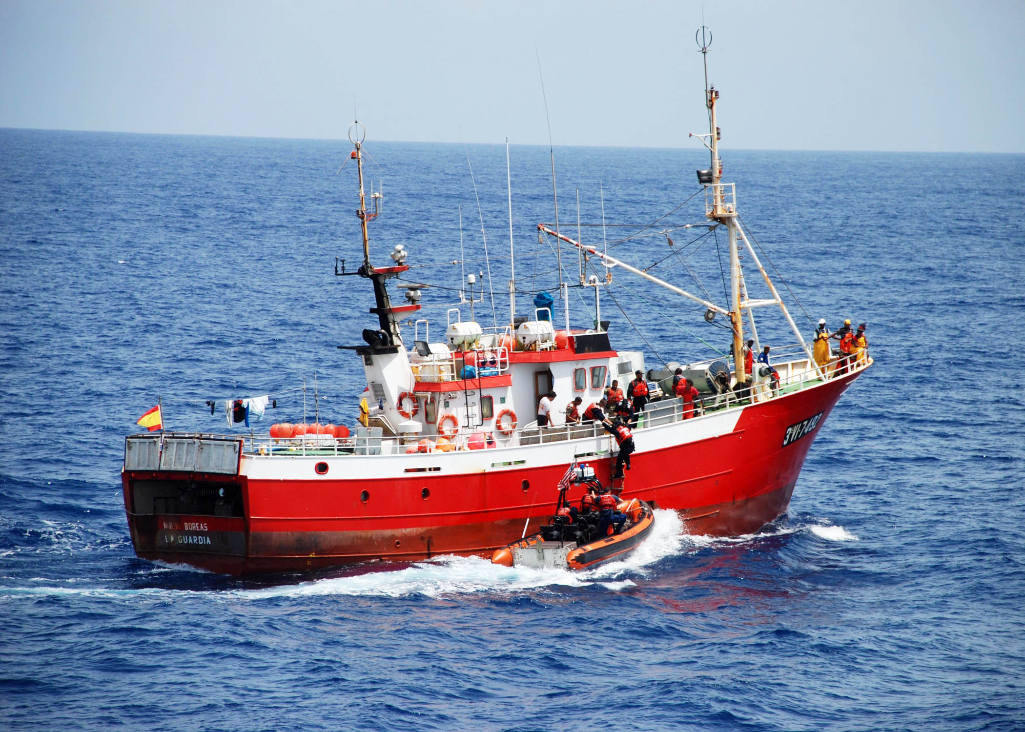 090903-G-6414E-002: ATLANTIC OCEAN (Sept. 3, 2009) A boarding team consisting of Sailors from U.S. Coast Guard cutter Legare (WMEC 912) and representatives of the Cape Verde Coast Guard and Judiciary Police embark a fishing boat during boarding operations. Legare and her crew are in Cape Verde deployed as part of Africa Partnership Station, a Commander, U.S. Naval Forces Europe-Commander, U.S. Naval Forces Africa initiative to conduct joint maritime law enforcement operations in African waters to improve maritime safety and security. (U.S. Coast Guard photo by Petty Officer 2nd Class Shawn Eggert/Released)